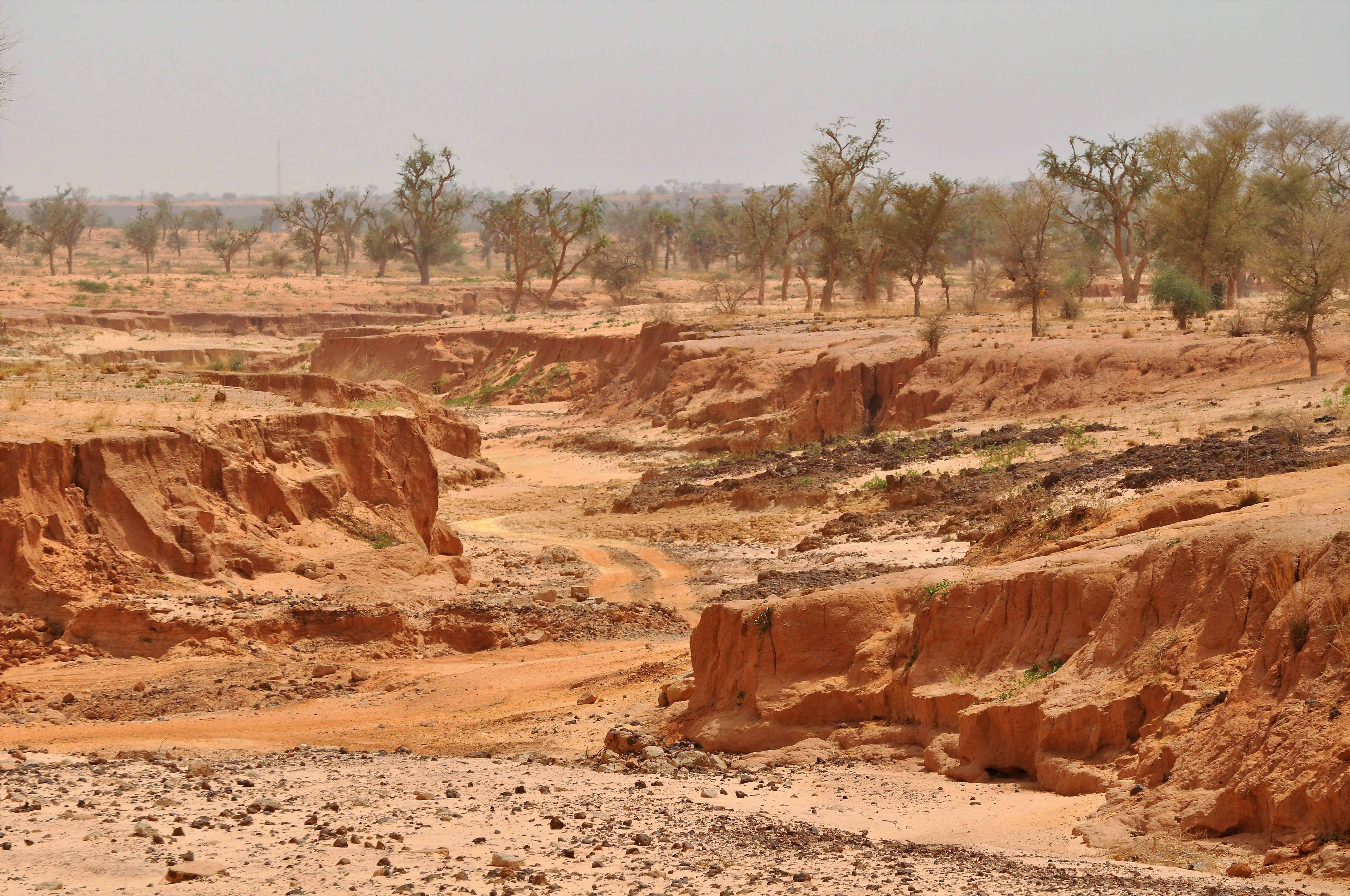 A dry and nameless riverbed in Niger in the commune of Liboré, close to the village of Koygorou (or Ko Gorou) and just a few kilometers east of the capital Niamey (Kollo department, Tillabery region, Niger).